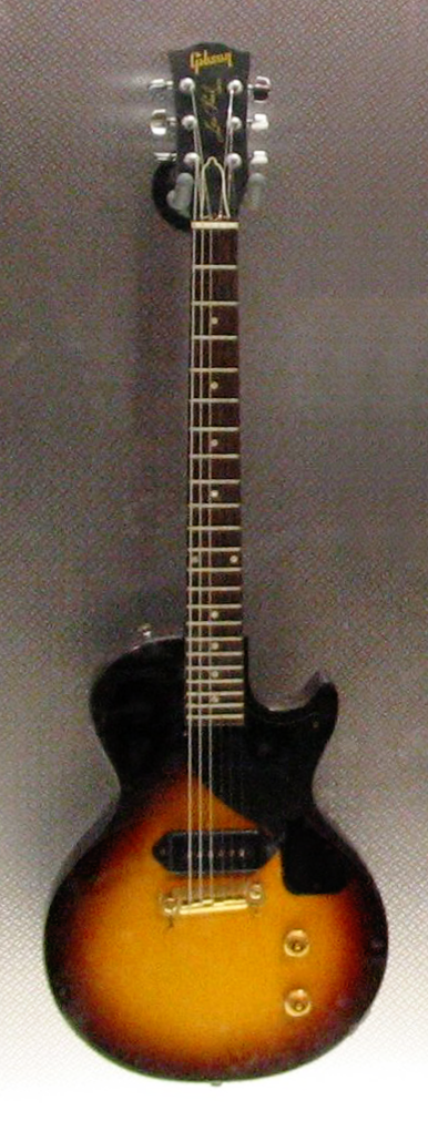 Rory Gallagher's VOX amp & guitars 1958 Gibson Les Paul Junior – [1] References Rory Gallagher official website , * Rory Gallagher Instrument Archive